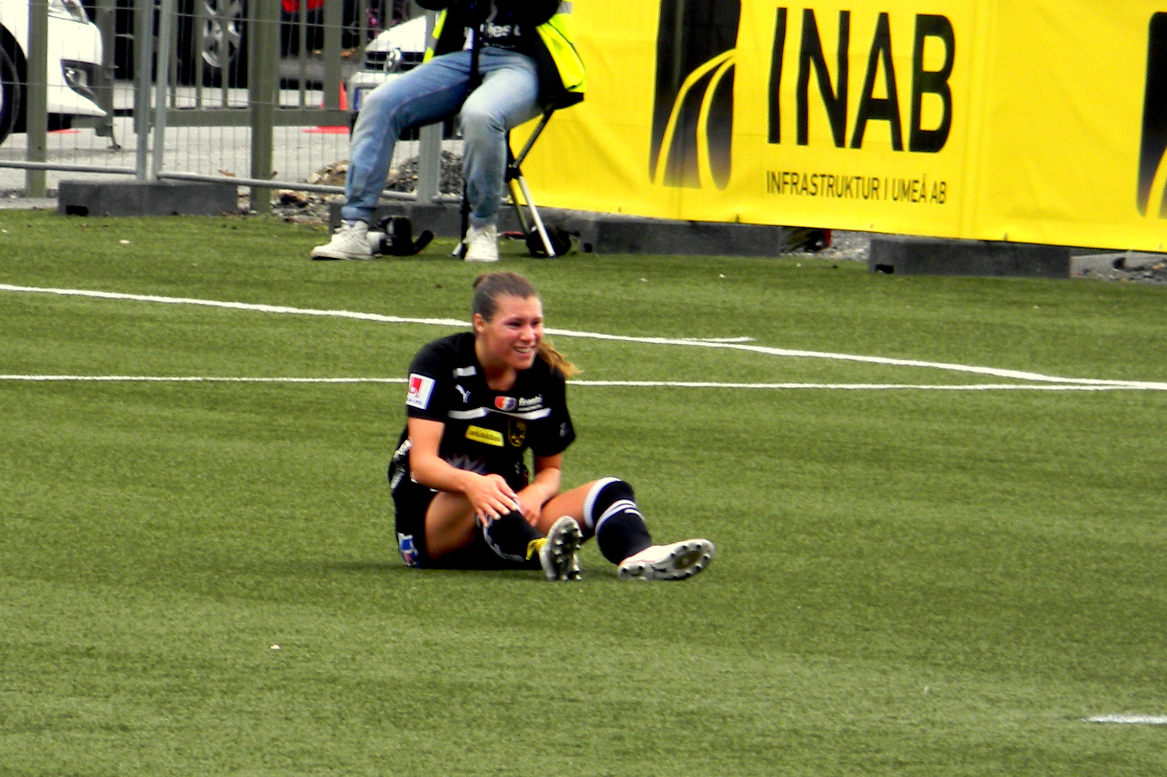 Ramona Bachmann, a swiss player from Umeå IK